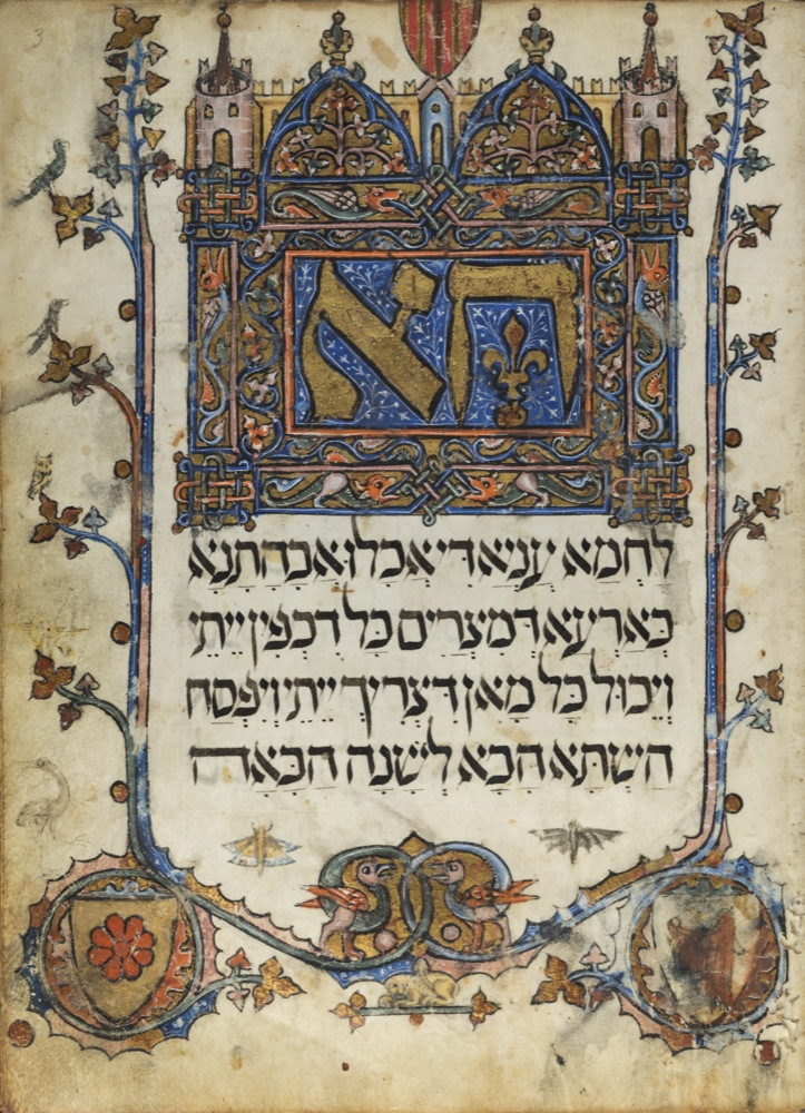 Sarajevska hagada